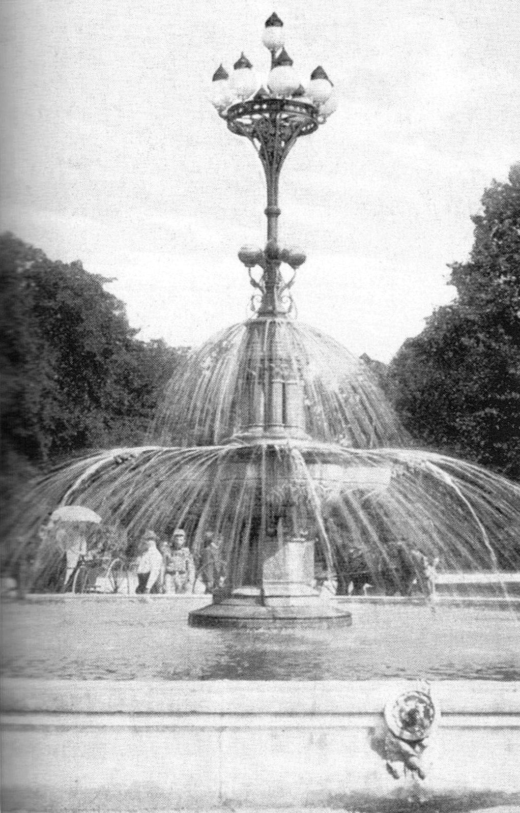 Washington Park, Chicago Grand Boulevard Entrance Horse Fountain